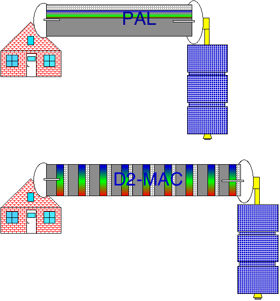 The simultanius PAL trasmission of all TV-picture elements and the multiplexed transmission of the TV picture elements with D2-MAC.